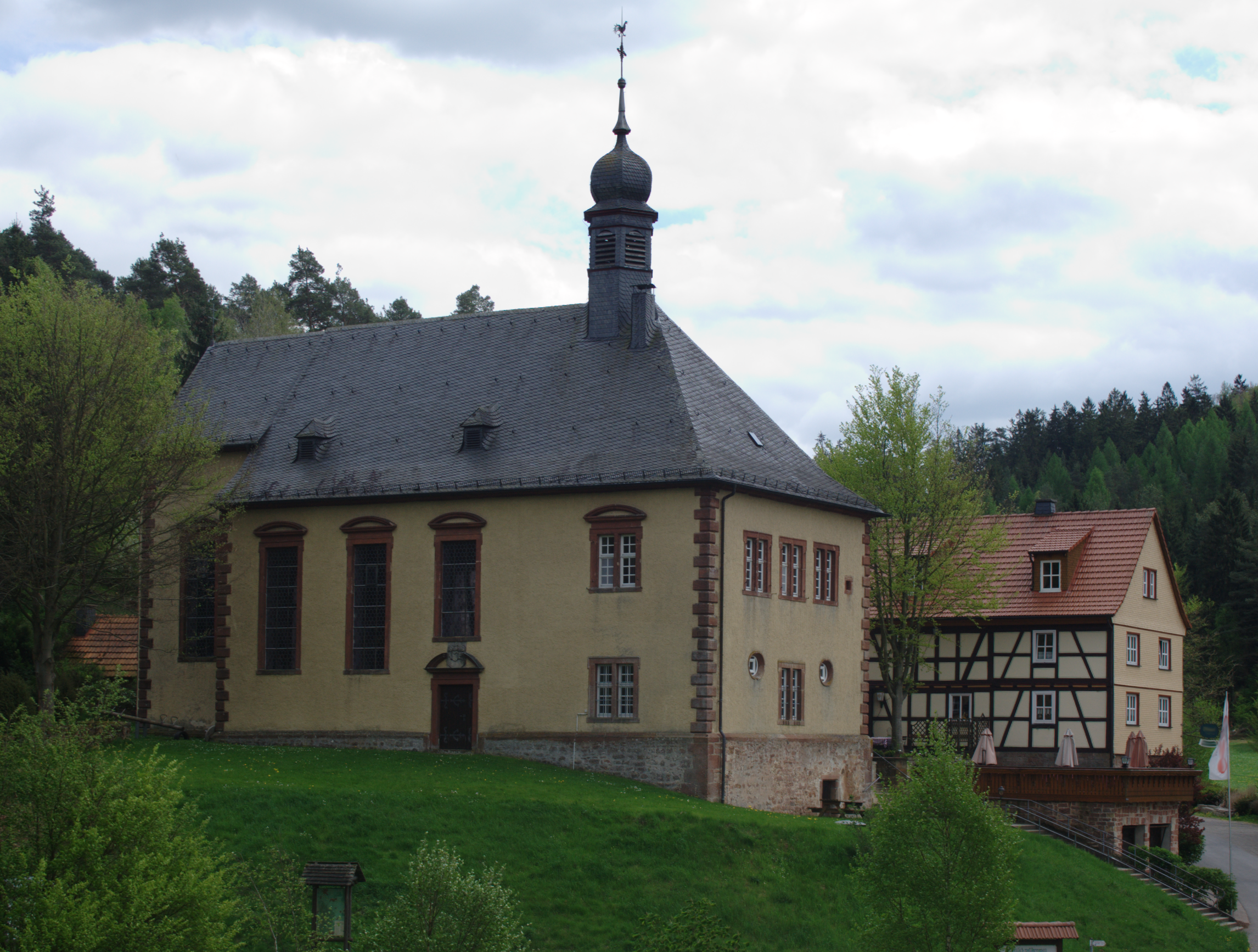 Chapel (Kleinheiligkreuz) in Grossenlueder Kleinlueder, Hesse, Germany